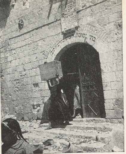 Looting the House of the Poor in the Jewish Quarter, MAy/June 1948.